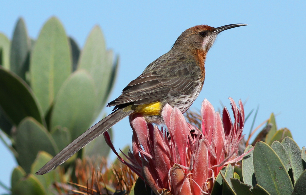 Gurney's Sugarbird, Promerops gurneyi at Marakele National Park